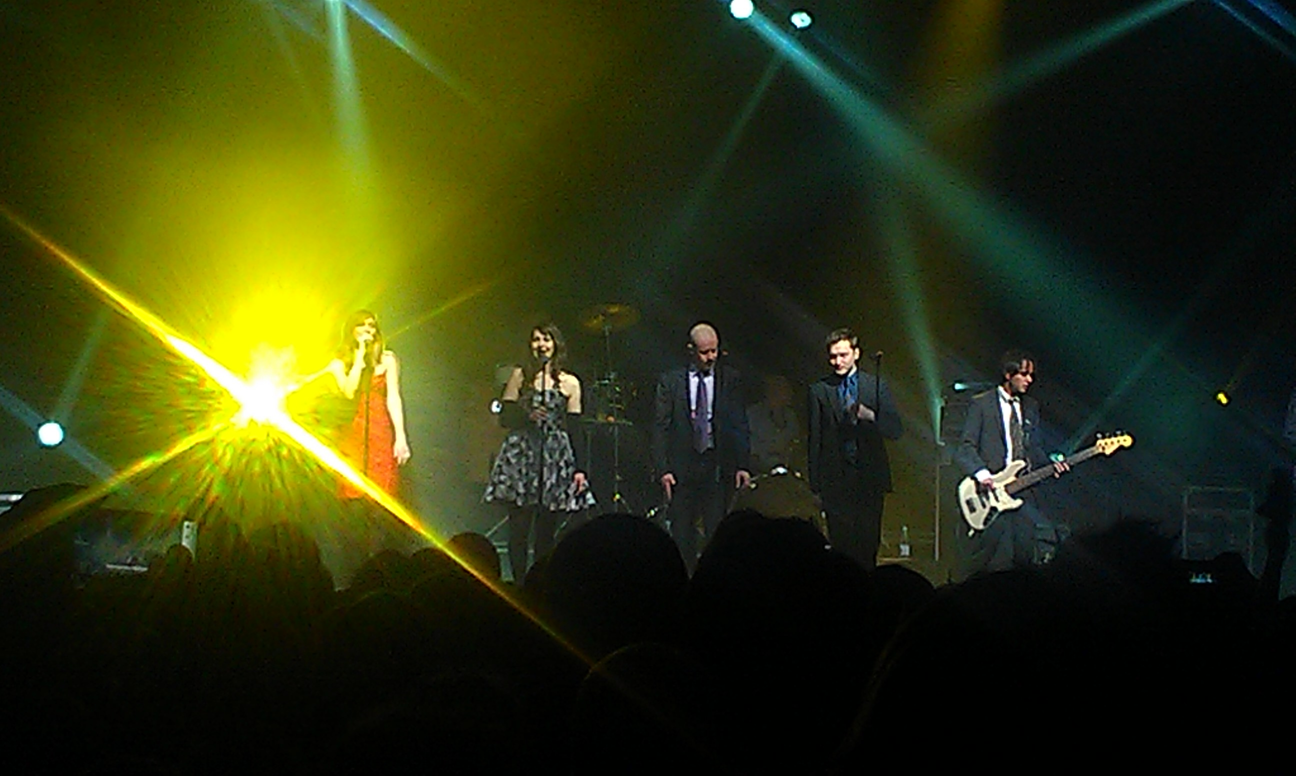 90's Finnish band sensation Ultra Bra had a comeback concert to support Pekka Haavisto for president of Finland. In Helsinki, Finland (vanha jäähalli) on 30.1.2012